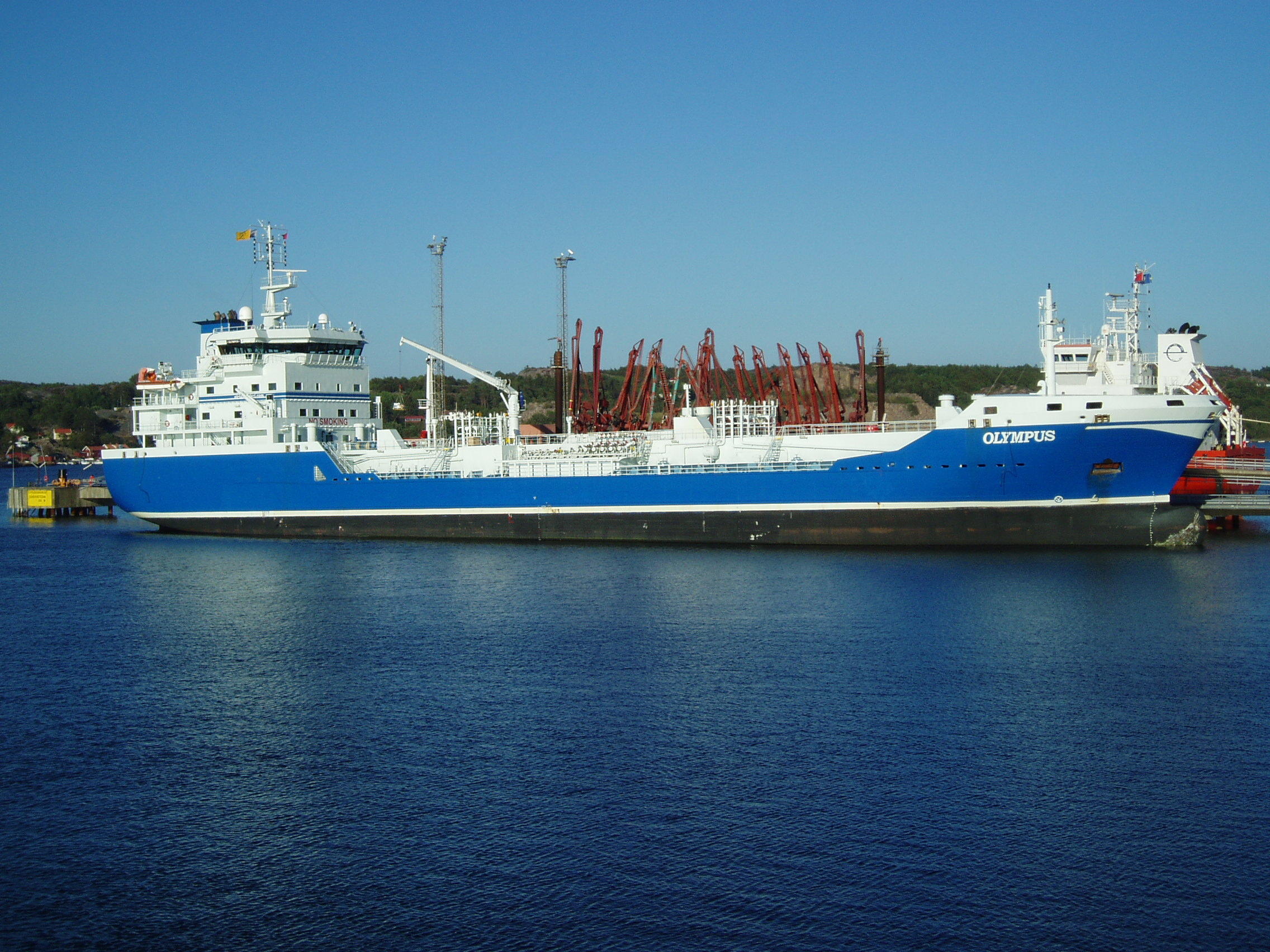 Swedish oil tanker M/T Olympus in Port of Brofjorden. IMO Number: 9310355 MMSI Number: 266224000 Callsign: SBGI Length: 125 m Beam: 18 m